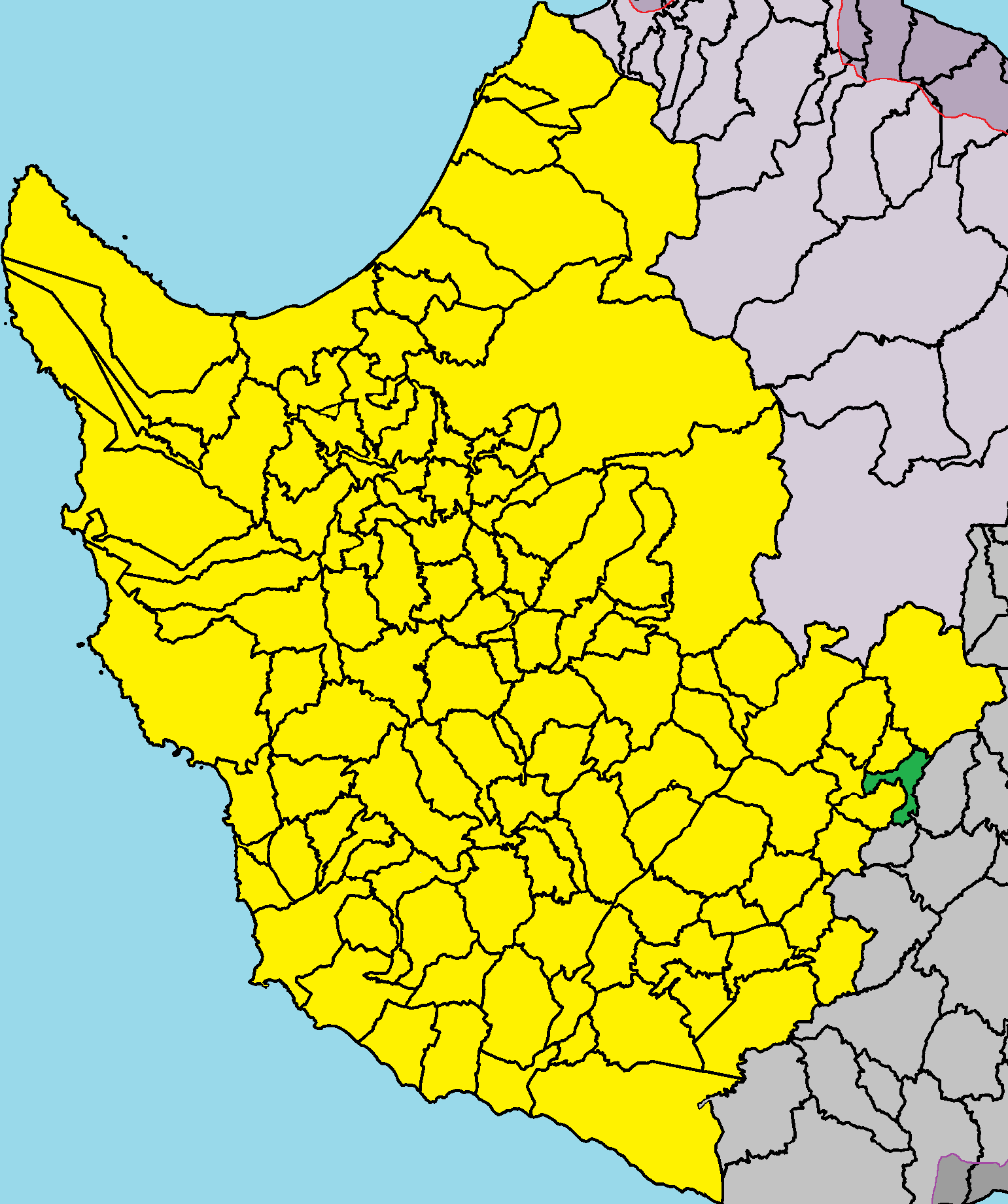 Praitori in Paphos District.